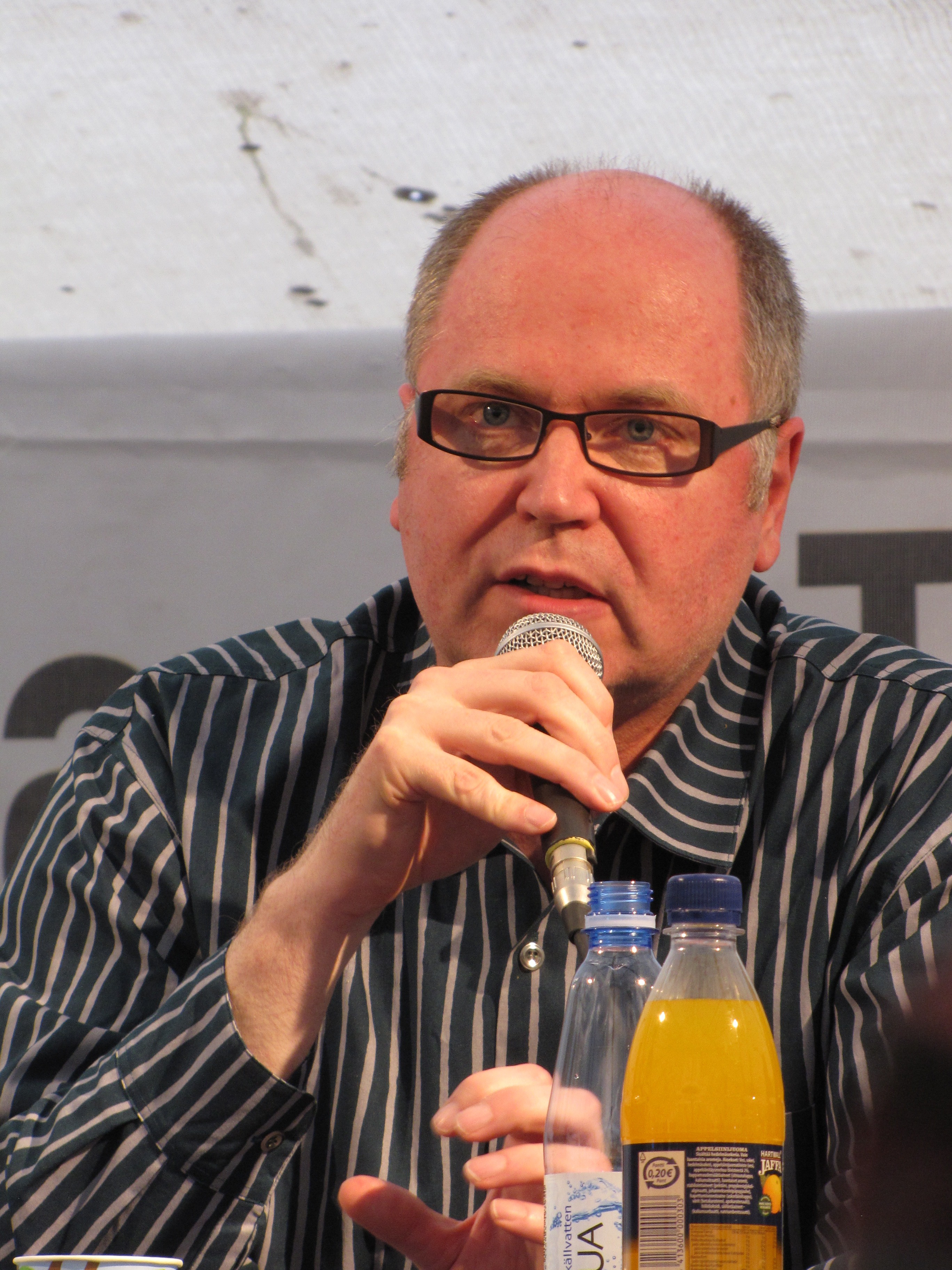 Eero Heinäluoma during Maailma kylässä -festival in Helsinki.